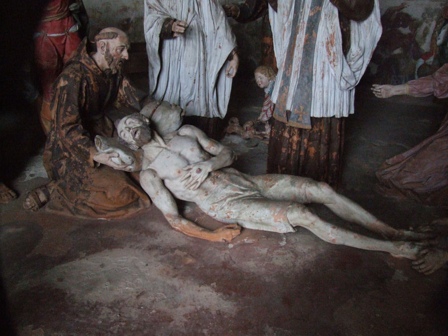 Death of St. Francis in Life of Francis of Assisi depicted in the series of chapels of the Sacro Monte di Orta in the comune of Orta San Giulio, Piedmont, Northern Italy.